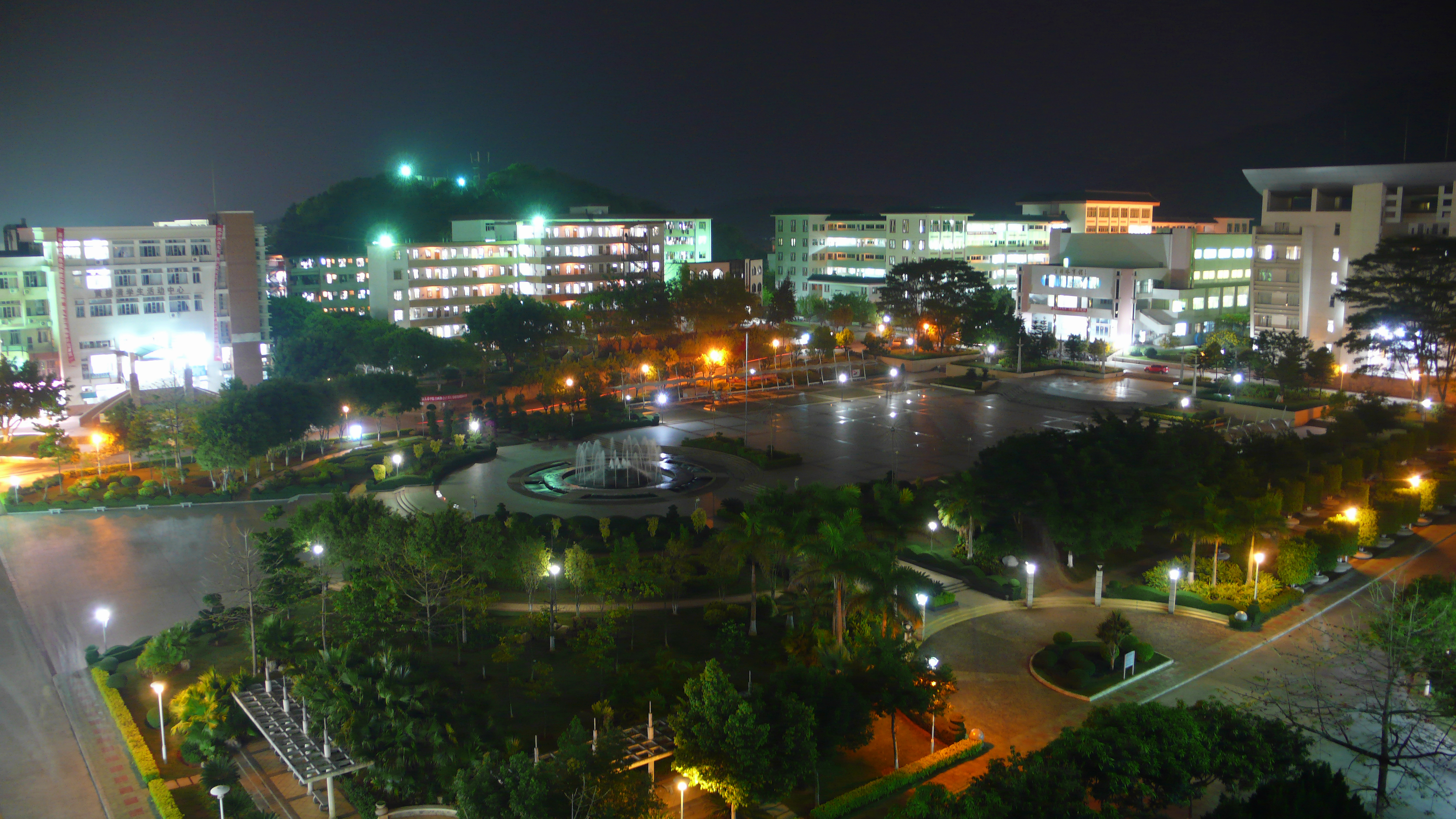 Jiaying University, Meizhou, Guangdong